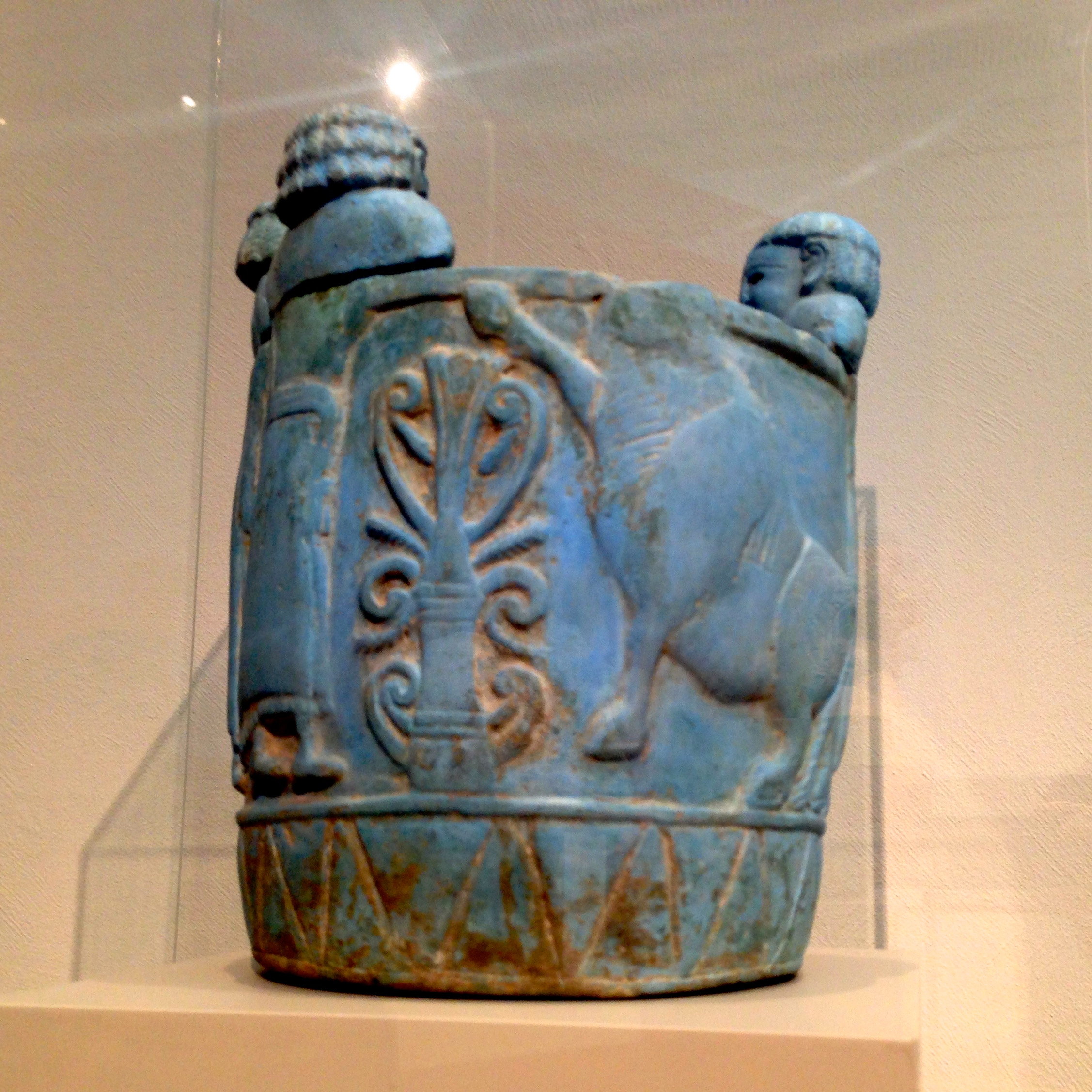 Pyxis made out of "Egyptian blue". Important to Italy from northern Syria. Produced 750-700 BC.